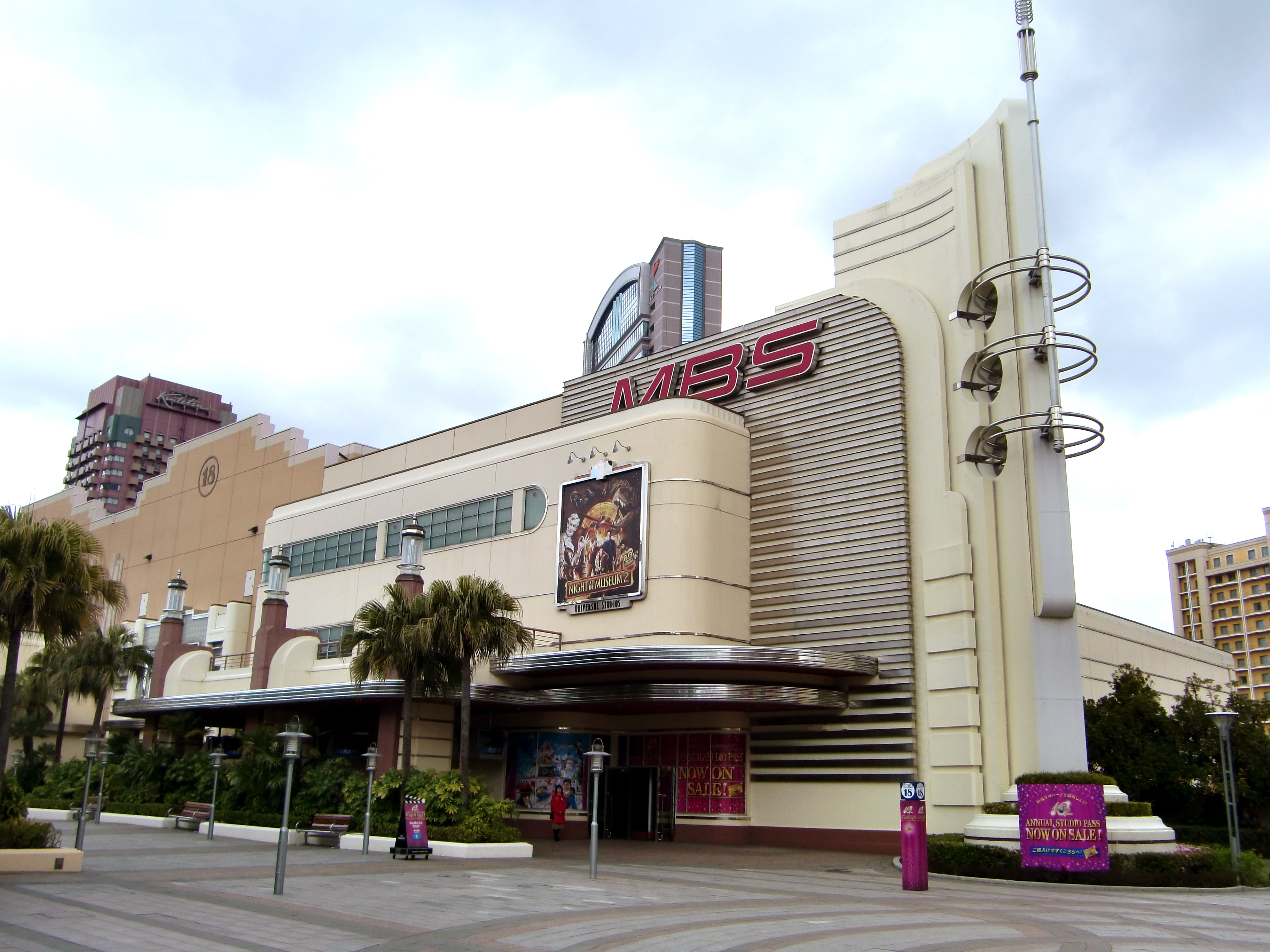 MBS Studios in USJ,2-1-33 Sakurajima Konohana-Ku Osaka-City Osaka Japan.